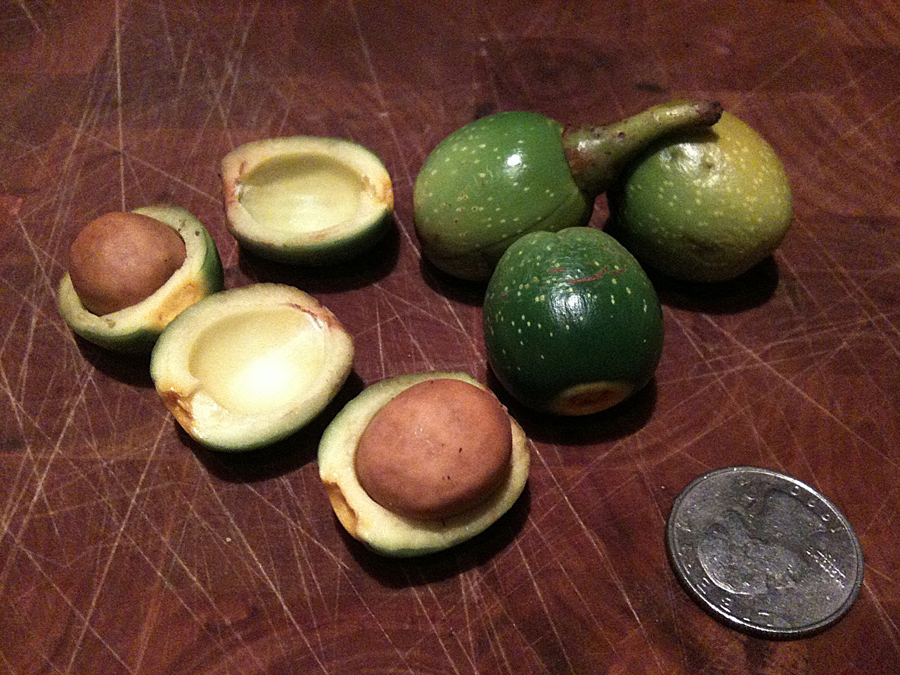 Umbellularia californica, or Bay nut, nearly ripe fruit, showing the similarity to the related Avocado. The aromatic and bitter outer flesh has been opened, and inner seeds are being prepared for roasting. From Tilden Park, Alameda County, California